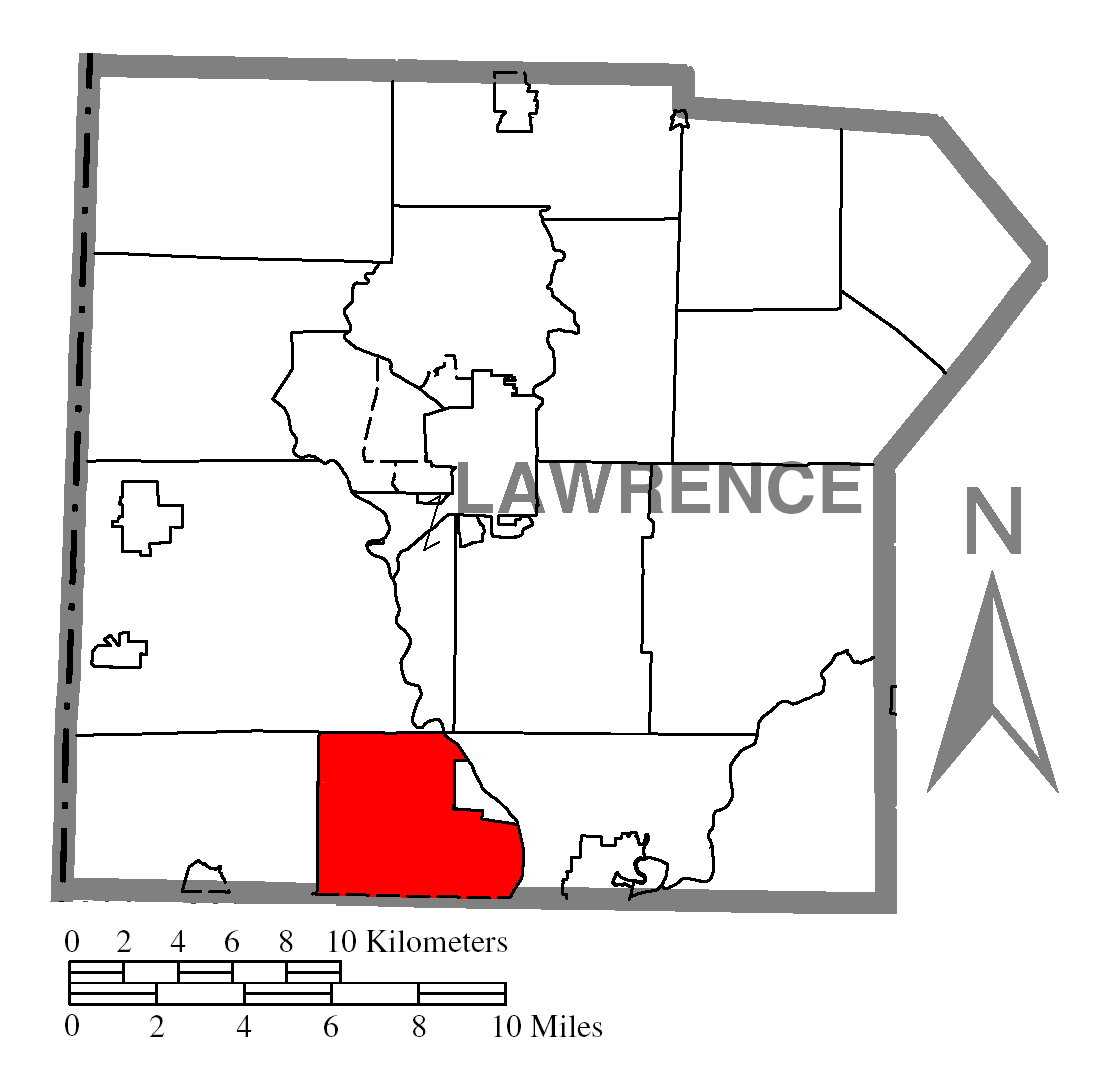 Map of Lawrence County higlighting New Beaver.